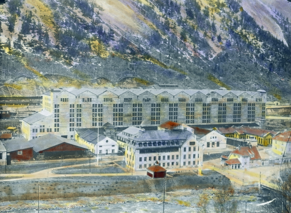 Håndkolorert dias. Rjukan fabrikker med elva i forgrunnen.